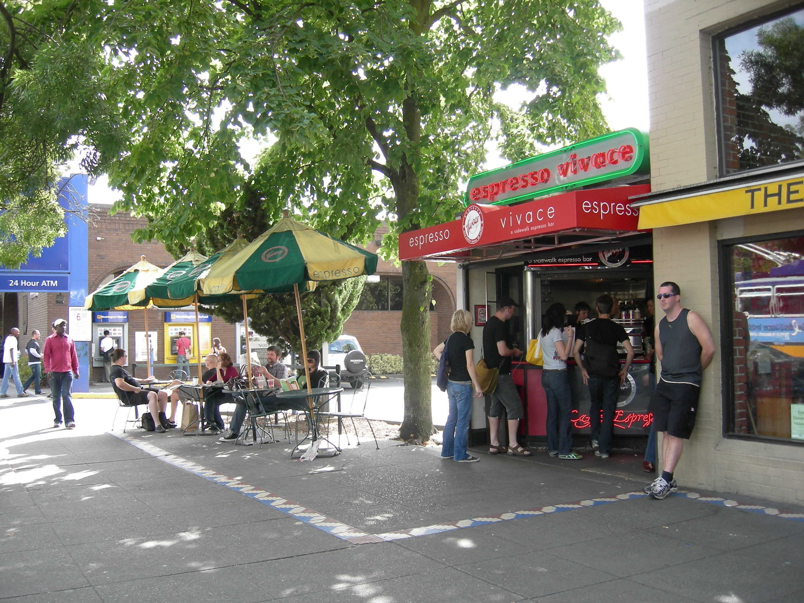 Vivace espresso bar on Broadway, Capitol Hill, Seattle, Washington.